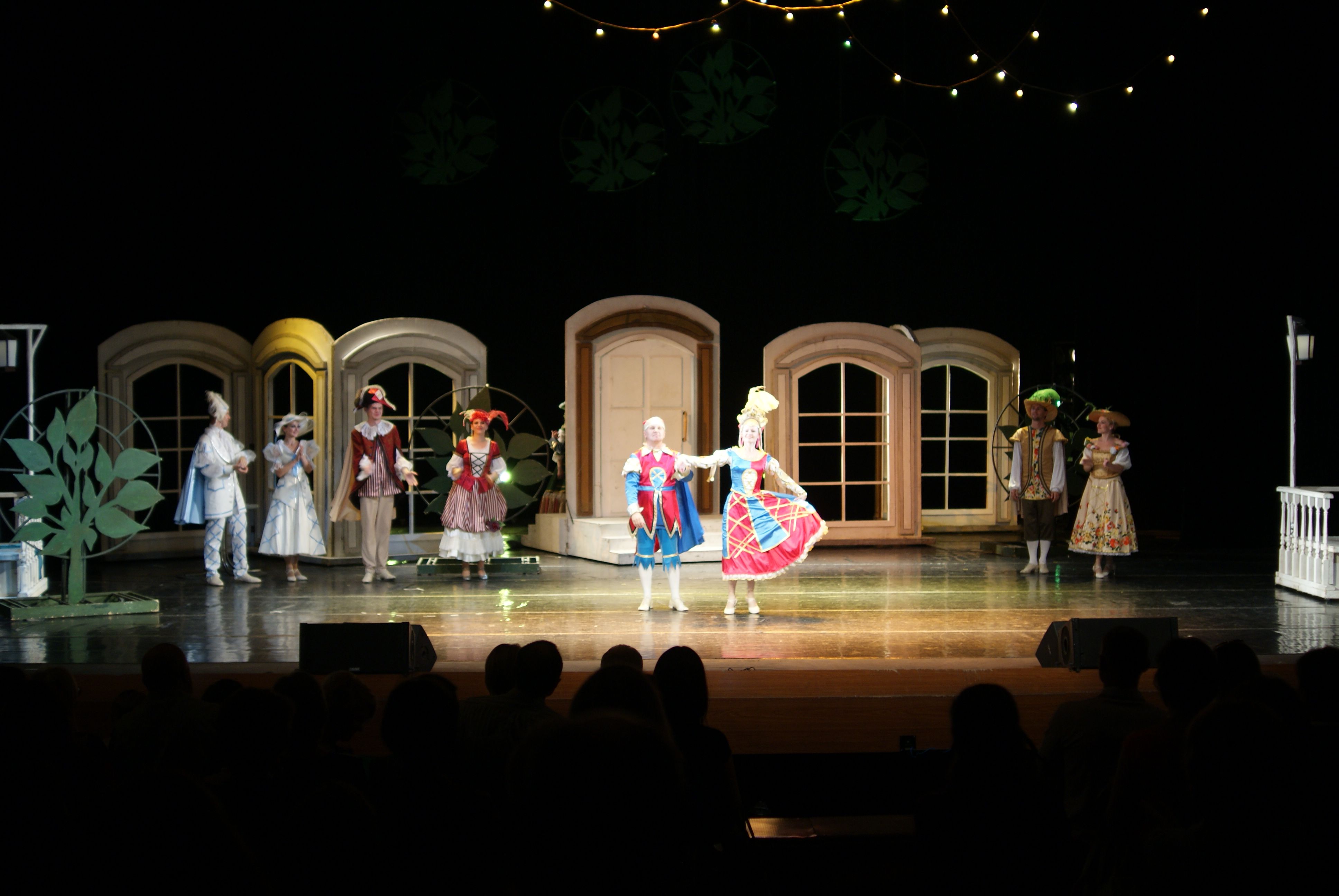 The true story of Poruchik Rzhevsky in Belarusian State Musical Theatre